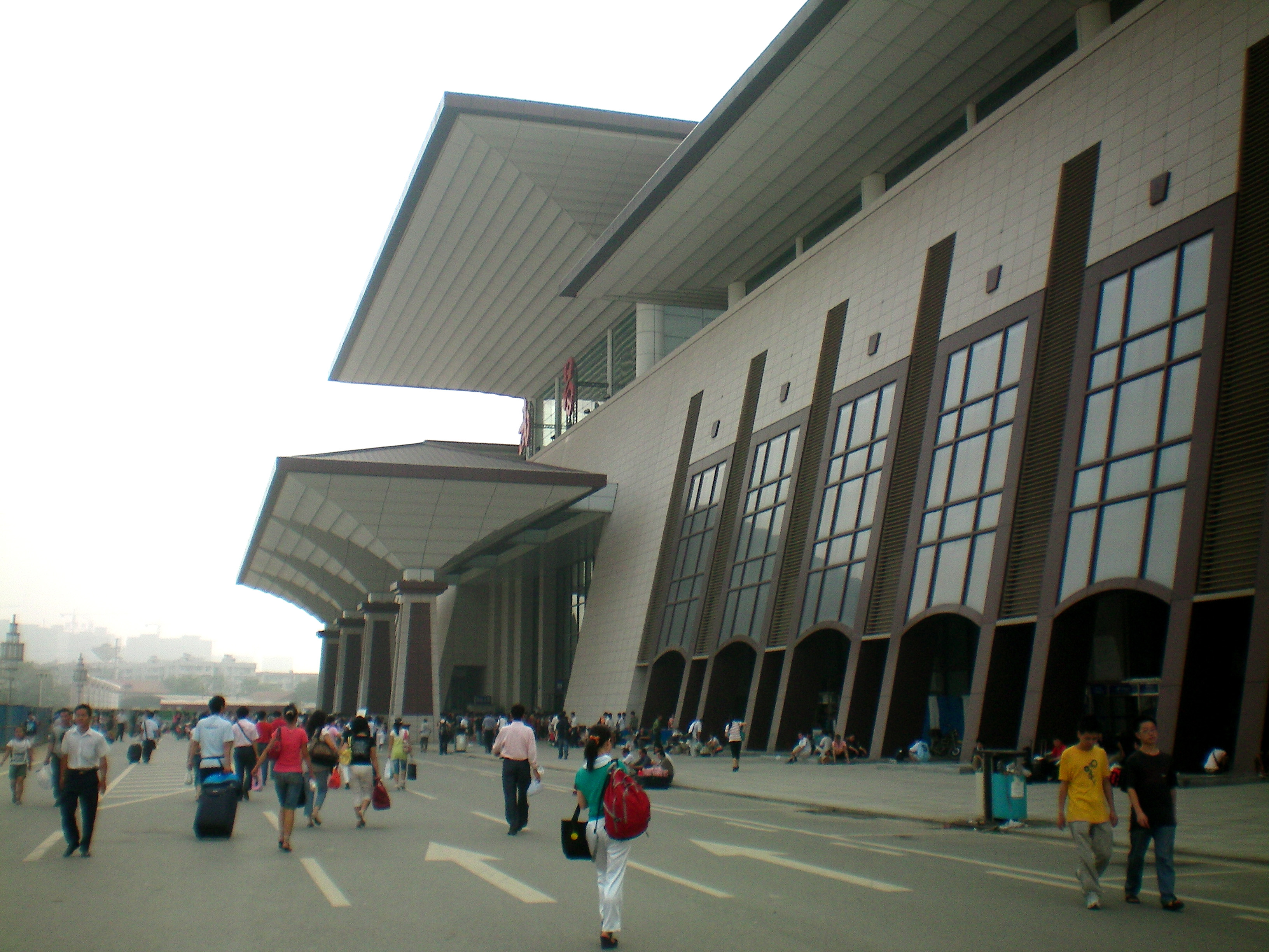 New Wuchang Railway Station